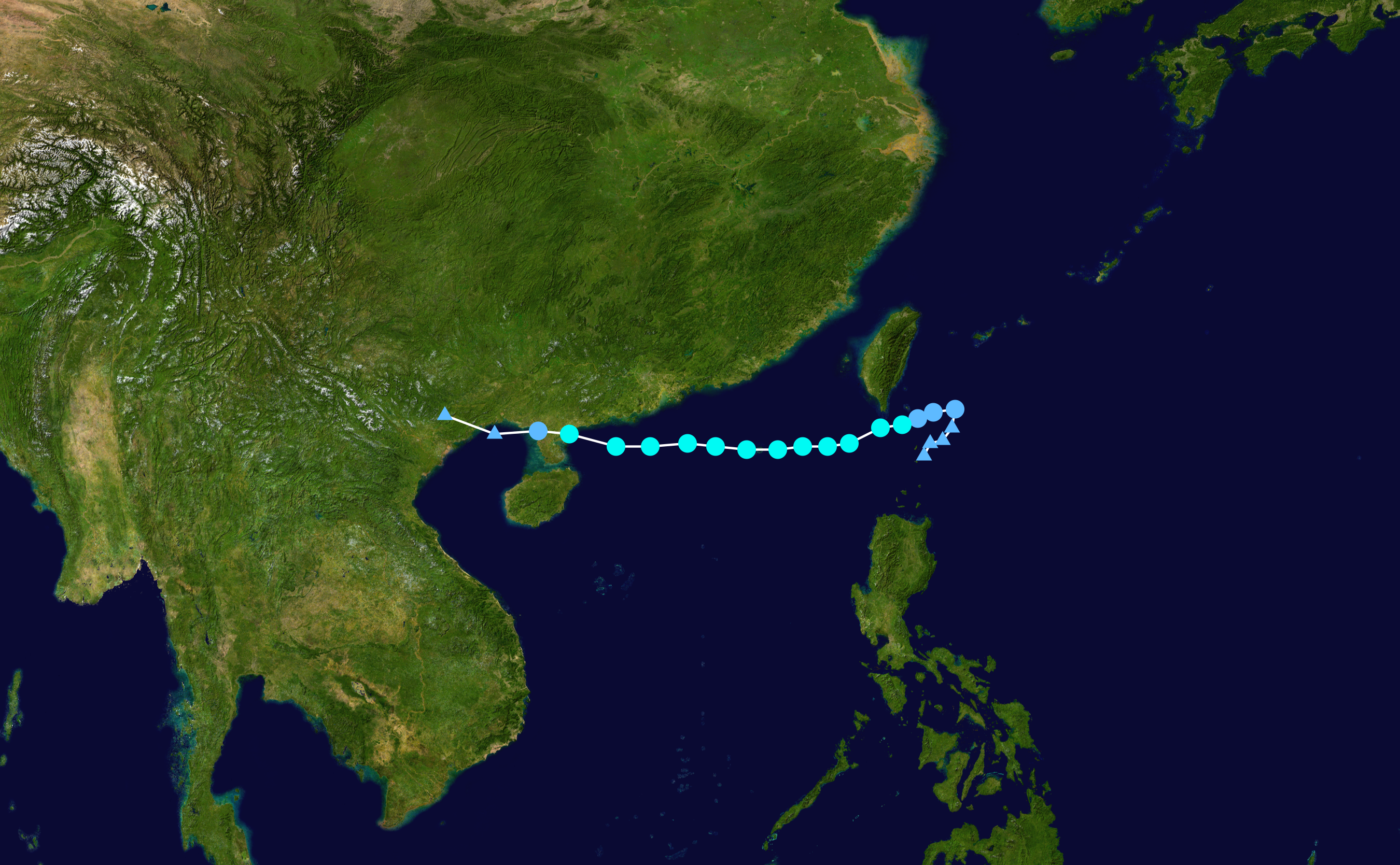 Track map of Tropical Storm Barijat of the 2018 Pacific typhoon season. The points show the location of the storm at 6-hour intervals. The colour represents the storm's maximum sustained wind speeds as classified in the Saffir–Simpson scale (see below), and the shape of the data points represent the nature of the storm, according to the legend below. Saffir–Simpson scale Tropical depression≤38 mph≤62 km/h Category 3111–129 mph178–208 km/h Tropical storm39–73 mph63–118 km/h Category 4130–156 mph209–251 km/h Category 174–95 mph119–153 km/h Category 5≥157 mph≥252 km/h Category 296–110 mph154–177 km/h Unknown Storm type Tropical cyclone Subtropical cyclone Extratropical cyclone / Remnant low / Tropical disturbance / Monsoon depression